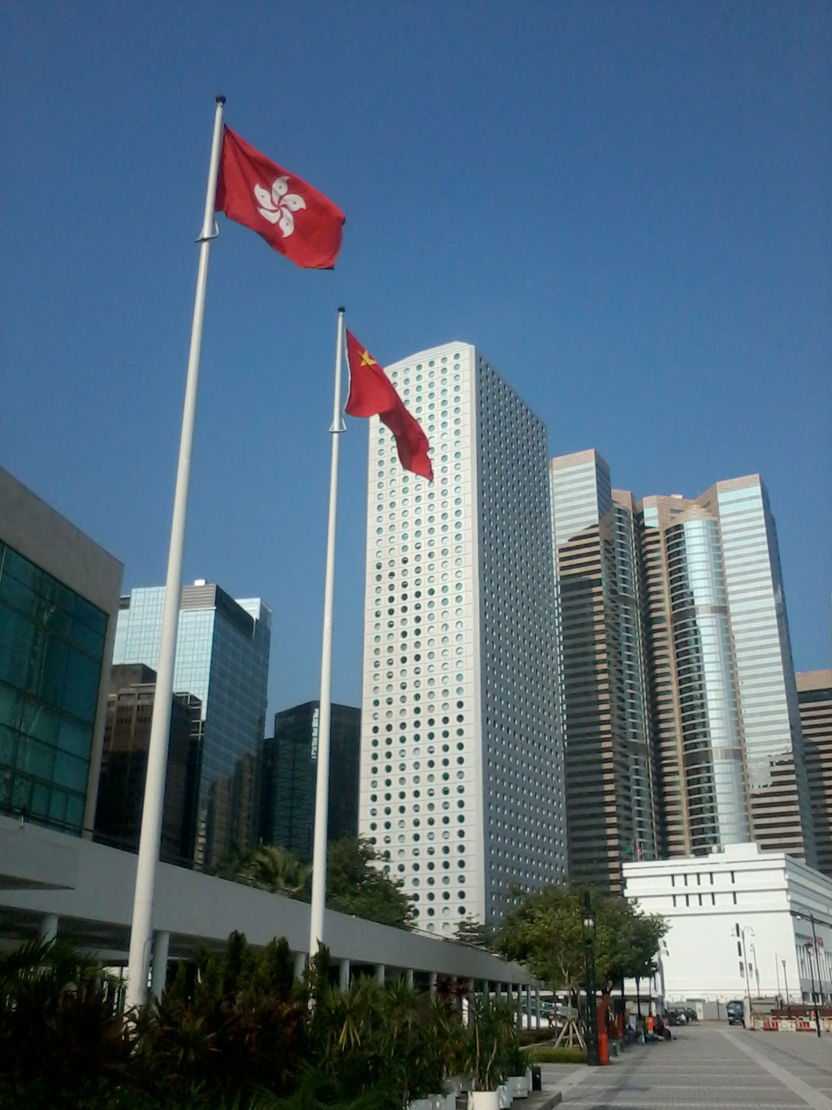 View from Edinburgh Place, Central, Hong Kong